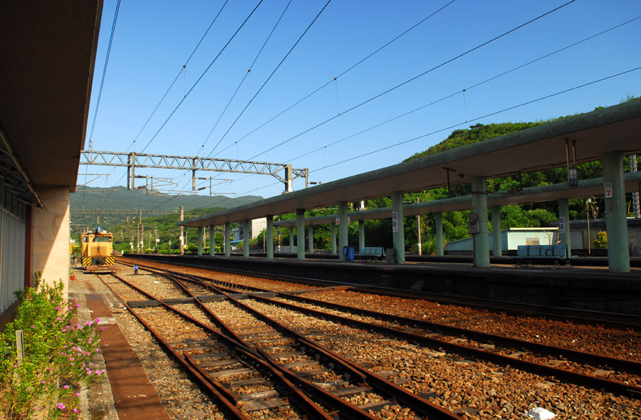 ShihCheng Station is a local train station of Yilan Line, part of Taiwan's eastern rail line. It's located within the boundary of FuLong Village, GongLiao Township, Taipei County. This photo shows the platform area of the station.中文（台灣）: 福隆車站是臺鐵宜蘭線上的一座地方車站，位於臺北縣貢寮鄉福隆村。圖中所見是福隆車站的月台區，站內股道數量極高。